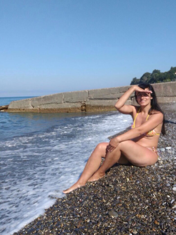 Elena Belobrova. Photo in support of the action #teachersarehumanstoo.